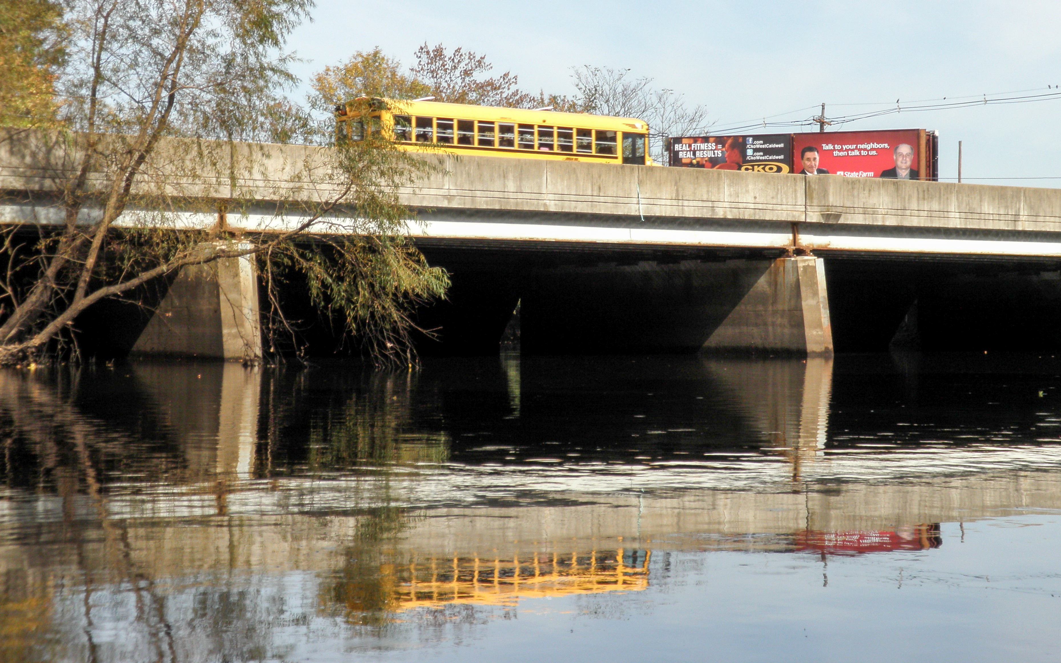 Pinebrook (NJ Route 159) Eastbound Bridge over the Passaic River, Montville - Fairfield Township, New Jersey (looking northeast by kayak)